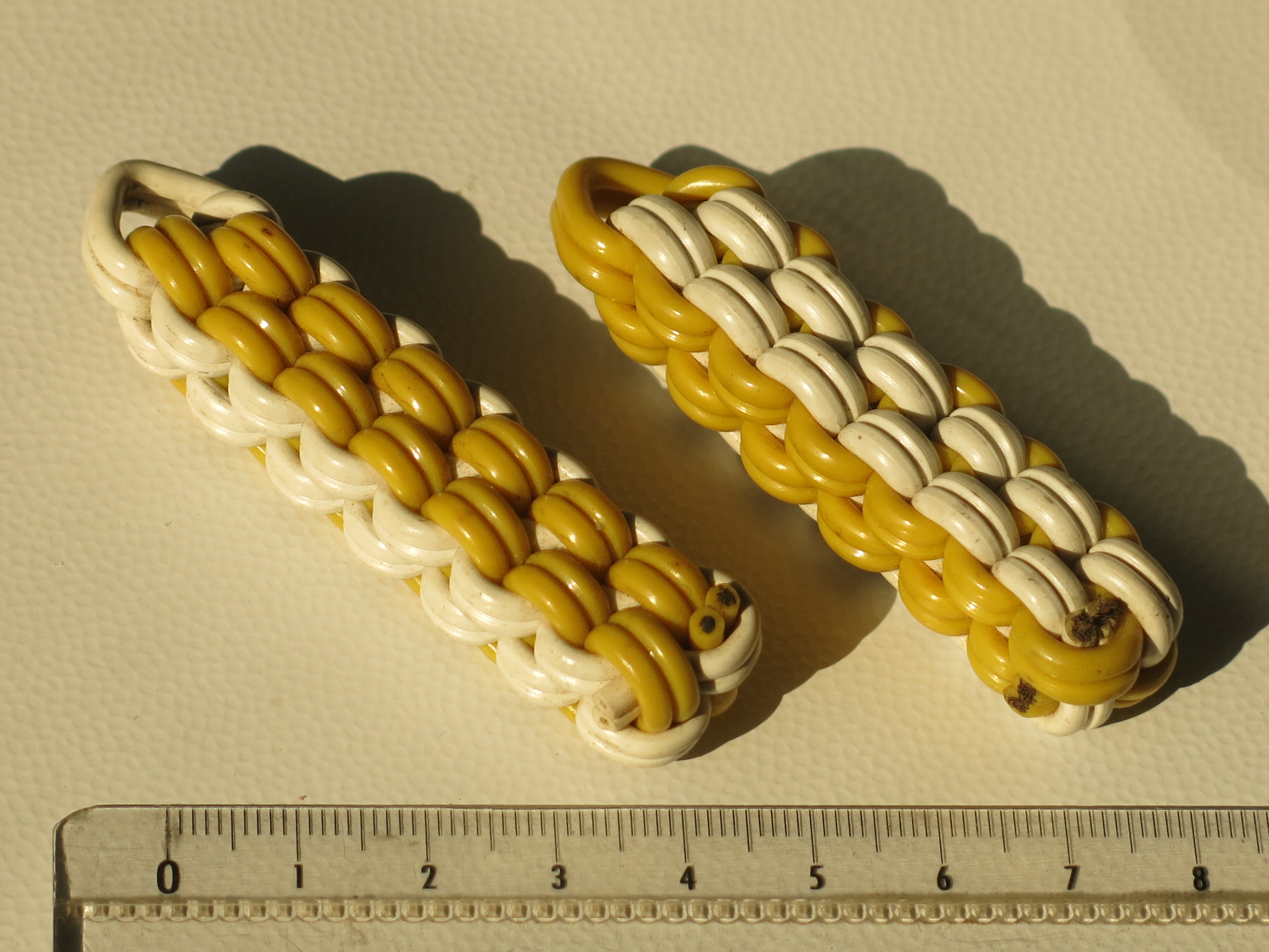 2 original and personal scoubidous of 1965, France.